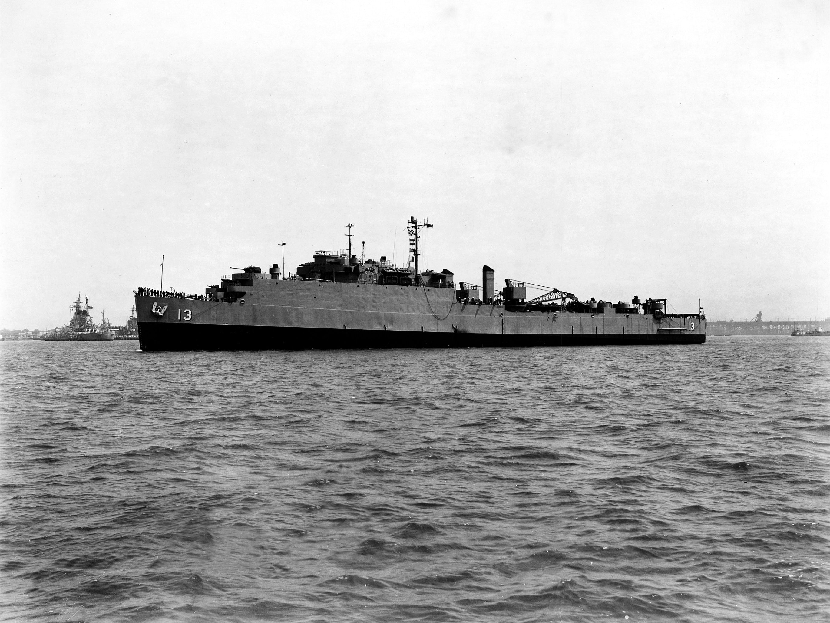 The U.S. Navy dock landing ship USS Casa Grande (LSD-13) departing Hampton Roads, Virginia (USA), on 30 April 1951. The battleship USS Missouri (BB-63) at Norfolk Naval Station is visible beyond the bow of Casa Grande.